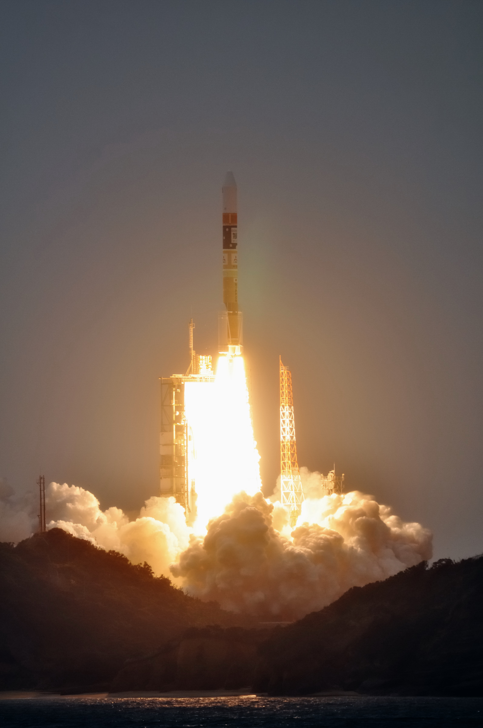 H-IIA Launch Vehicle Flight 15, launching "IBUKI" (GOSAT:Greenhouse gases Observing Satellite).